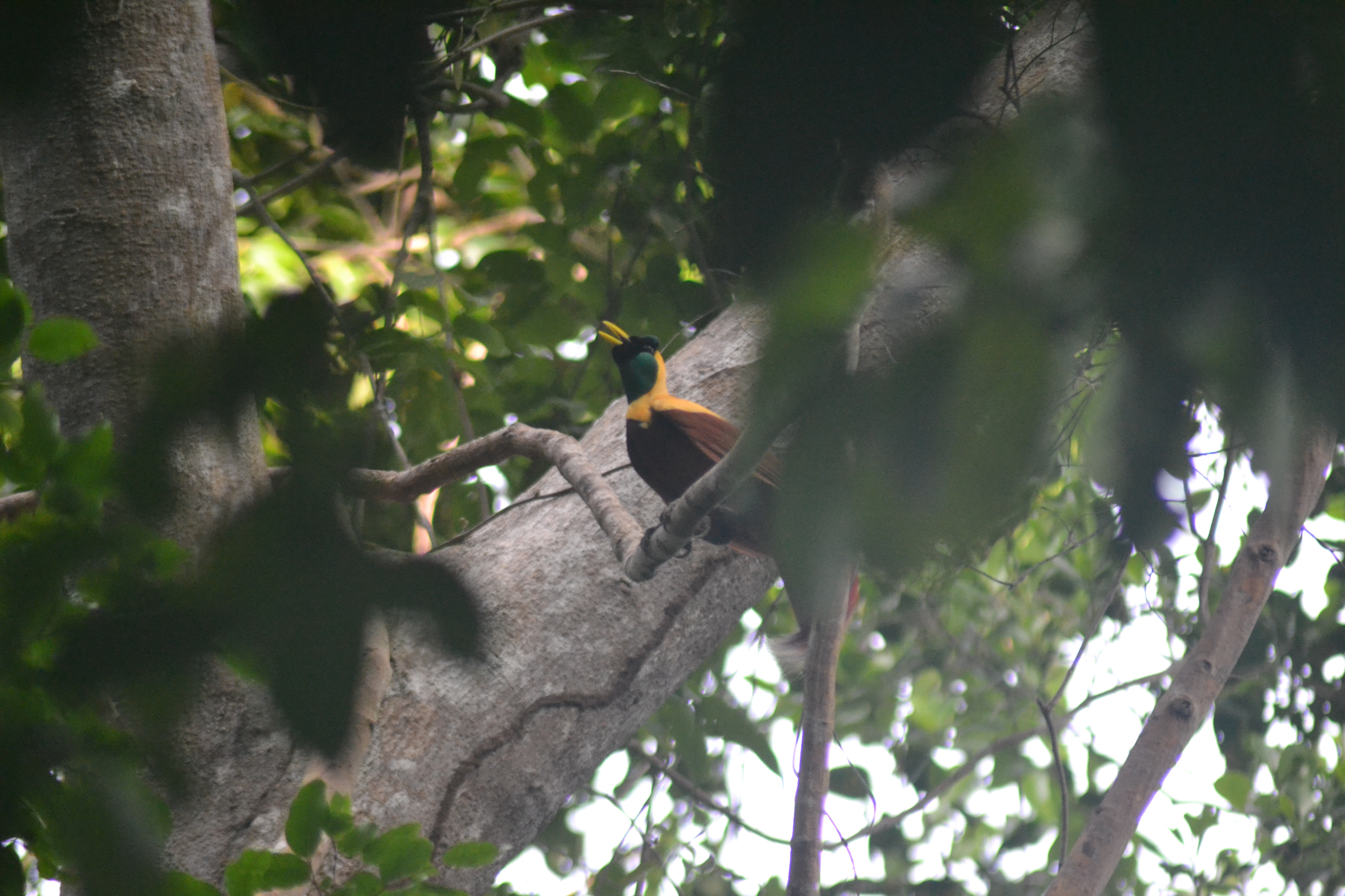 Red Bird-of-paradise Paradisaea rubra, Papua New Guinea